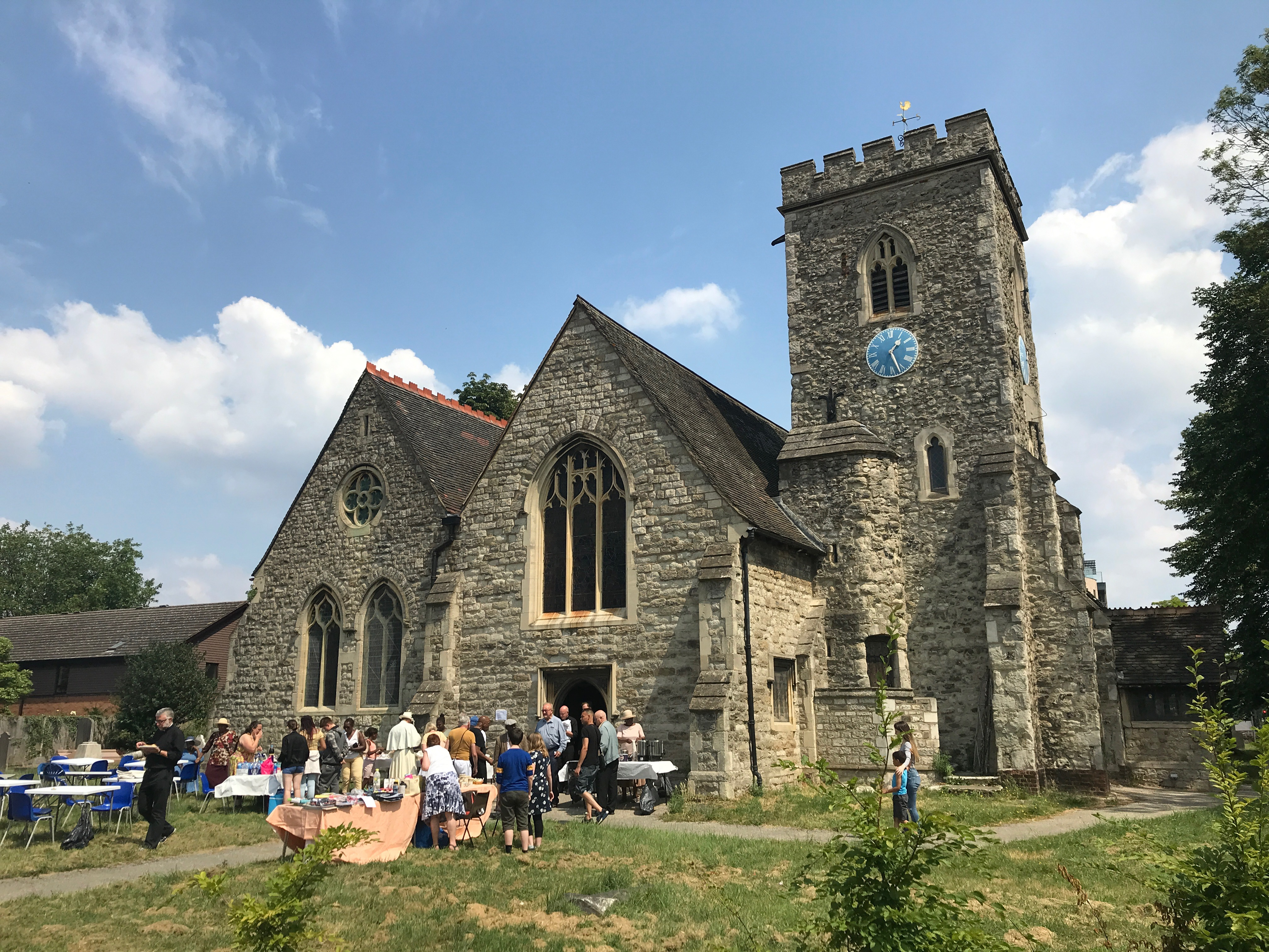 St Mary's parish church, Willesden, London NW10, seen from west-southwest